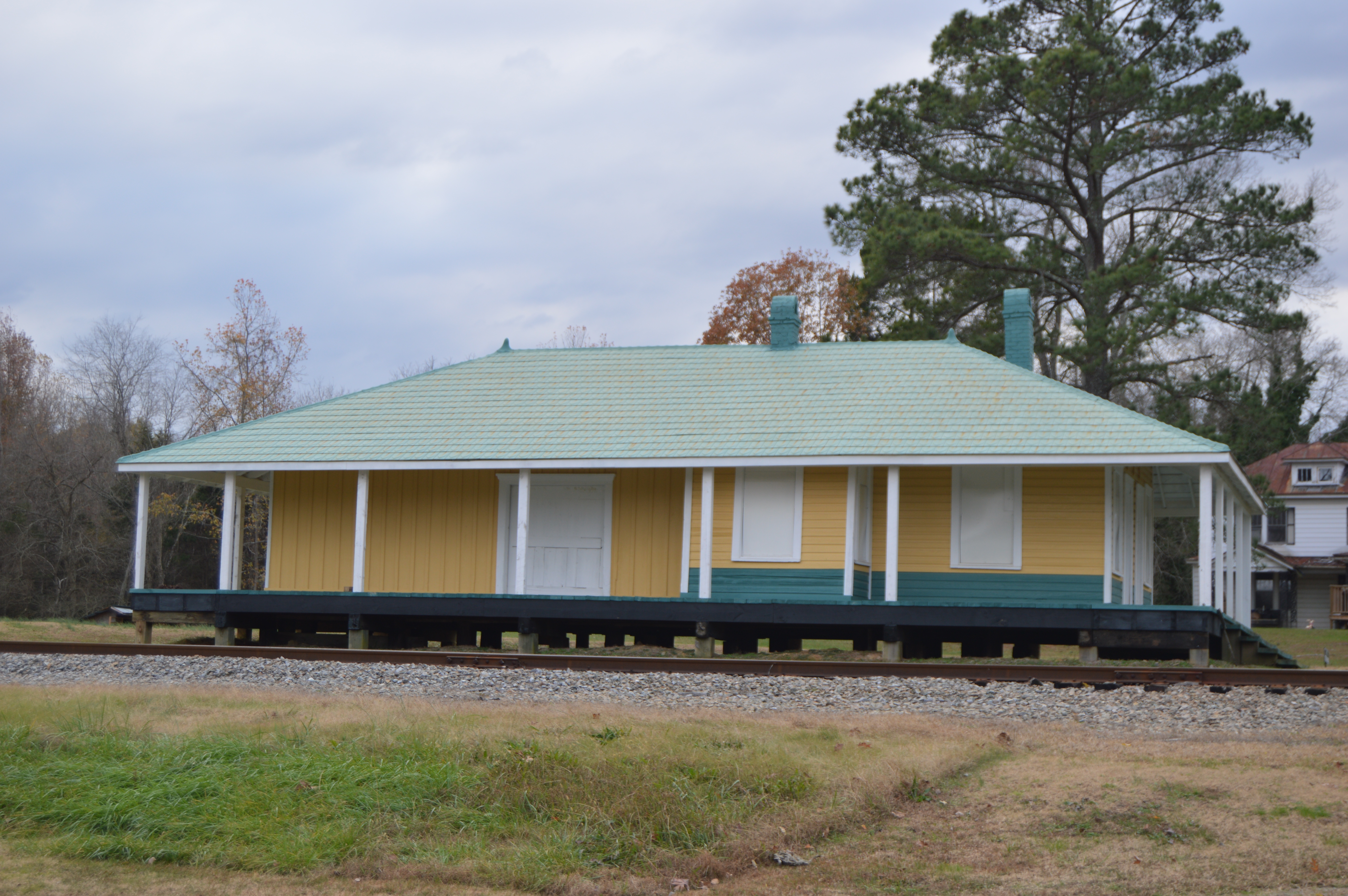 Roadside view of the Fort Mitchell Depot, located on Fort Mitchell Drive in Fort Mitchell, Virginia, United States. It was built for the Richmond and Danville Railroad, later became part of the Southern Railroad, and now sits along a Norfolk Southern line. Built in 1860, it is listed on the National Register of Historic Places.